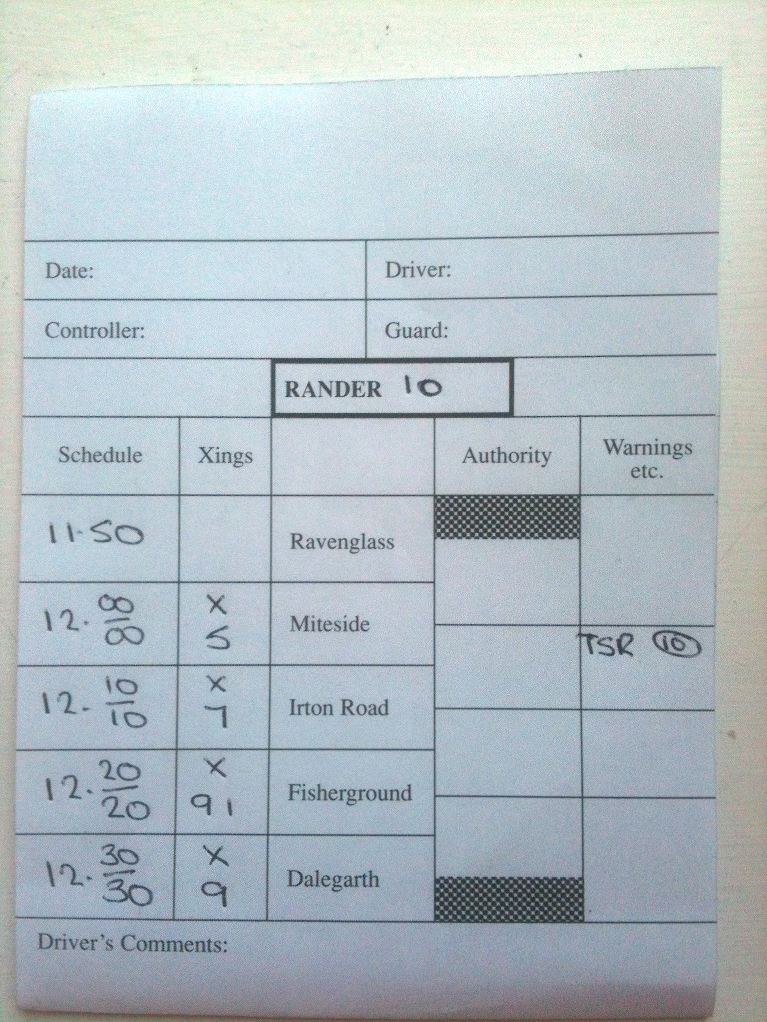 Fictitious rander board, Ravenglass & Eskdale Railway, Cumbria, England.